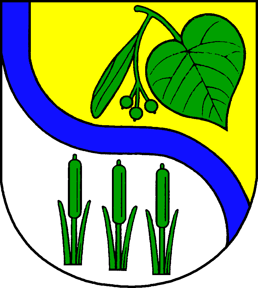 Coat of arms of the municipality Geschendorf in Schleswig-Holstein, Germany.